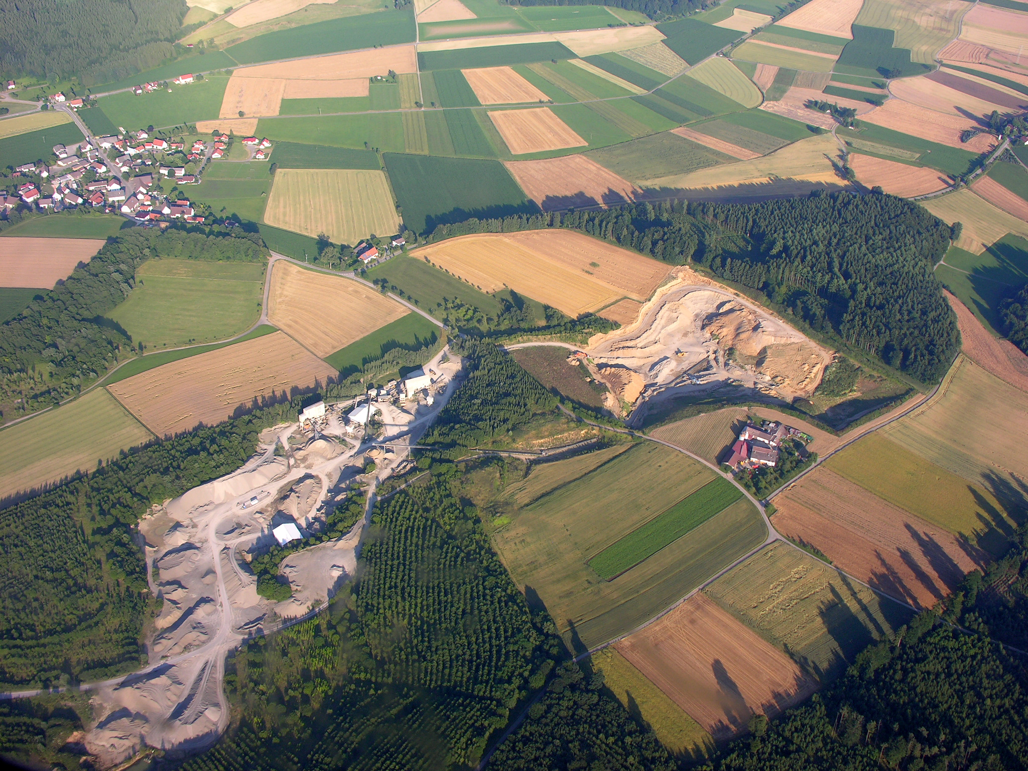 Aerial View of Gravel Pit near Otterswang